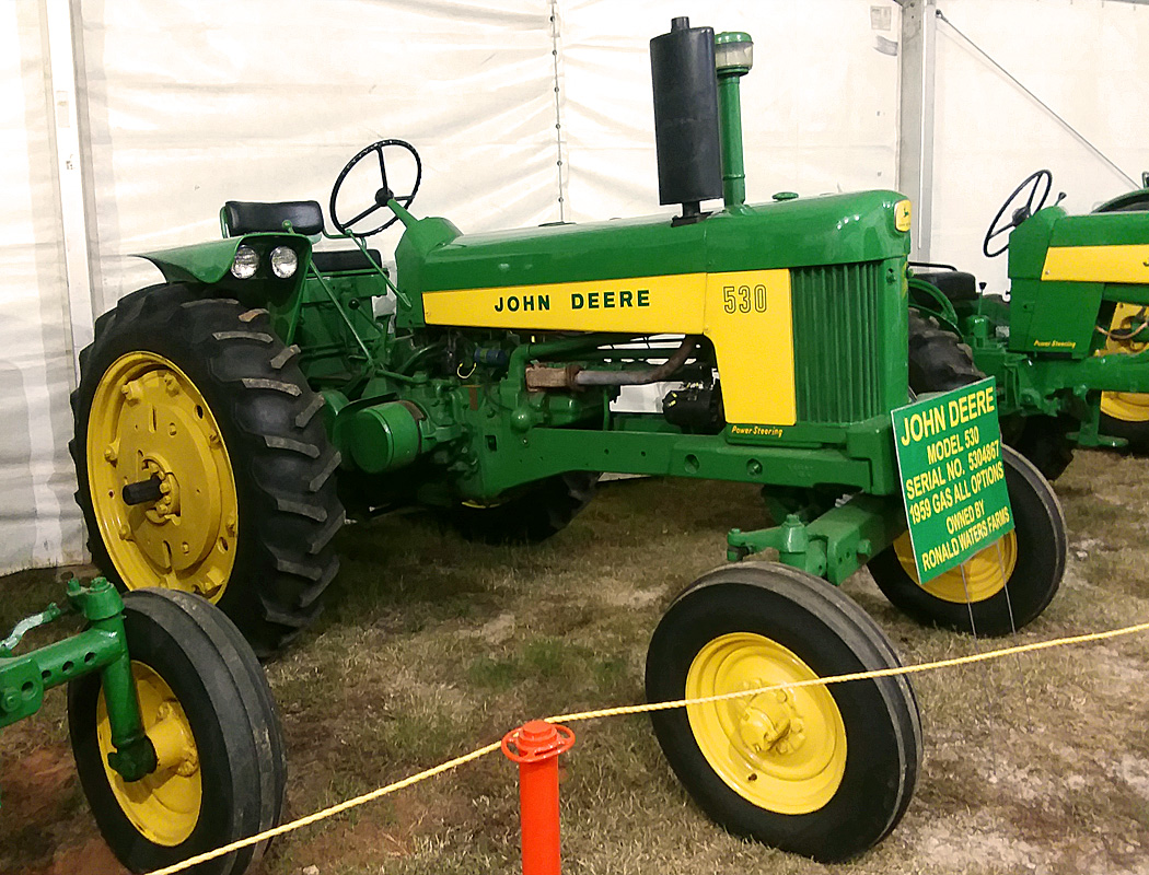 John Deere tractor Model 530, made in 1959, USA